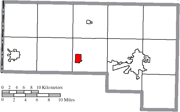 Map of the municipal and township boundaries of Defiance County, Ohio, United States, as of the 2000 census, with the location of the village of Sherwood highlighted. Township borders are shown only in unincorporated areas in order to differentiate incorporated and unincorporated areas more clearly.